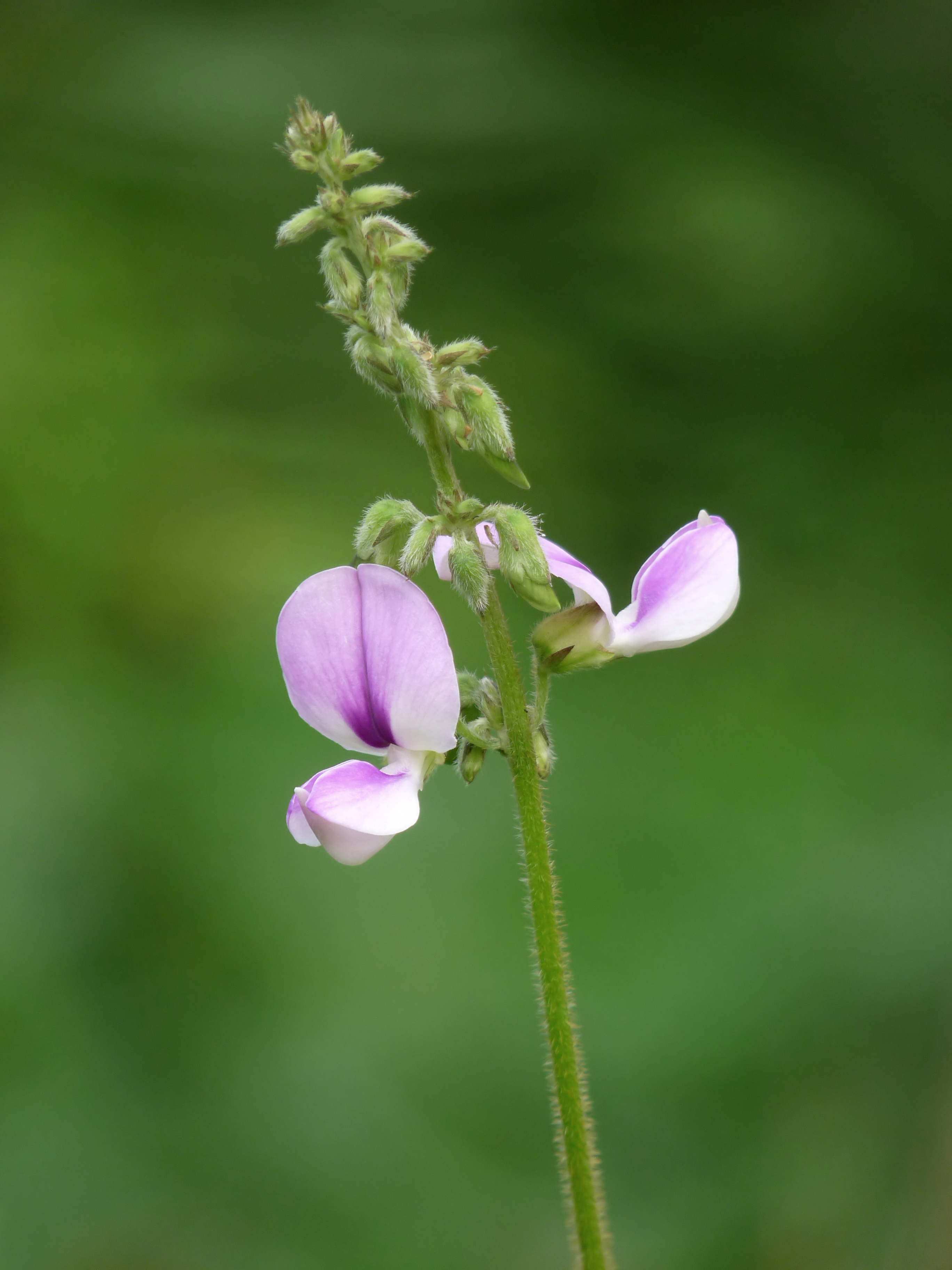 Pueraria phaseoloides, Tropical Kudzu, is a climbing, perennial shrub, with slender, rusty-hairy stems growing to 2-10 m long. Leaves are trifoliate with distinctive leaflets which are rhombic in shape, 3-15 cm long. Leaflet margin sometimes have undulations. Leaf stalk is 3-11 cm long. Flowers arise in raceme-like clusters, 15-30 cm long. Flower stalks are 2-5 mm long. Sepal tube is 3-4 mm long, velvety, with the upper 2 teeth joined almost to tip. Petals are lavender, with white margins. Standard petals is broadly elliptic, about 1.8 cm long, eared at base. Wings are eared and lobed at base. Keel is sickle shaped, acute. Fruit is linear, 5-10 cm long, velvety, dark grey. Tropical Kudzu is found in the Himalayas, from Nepal to Sikkim, Assam and South East Asia.